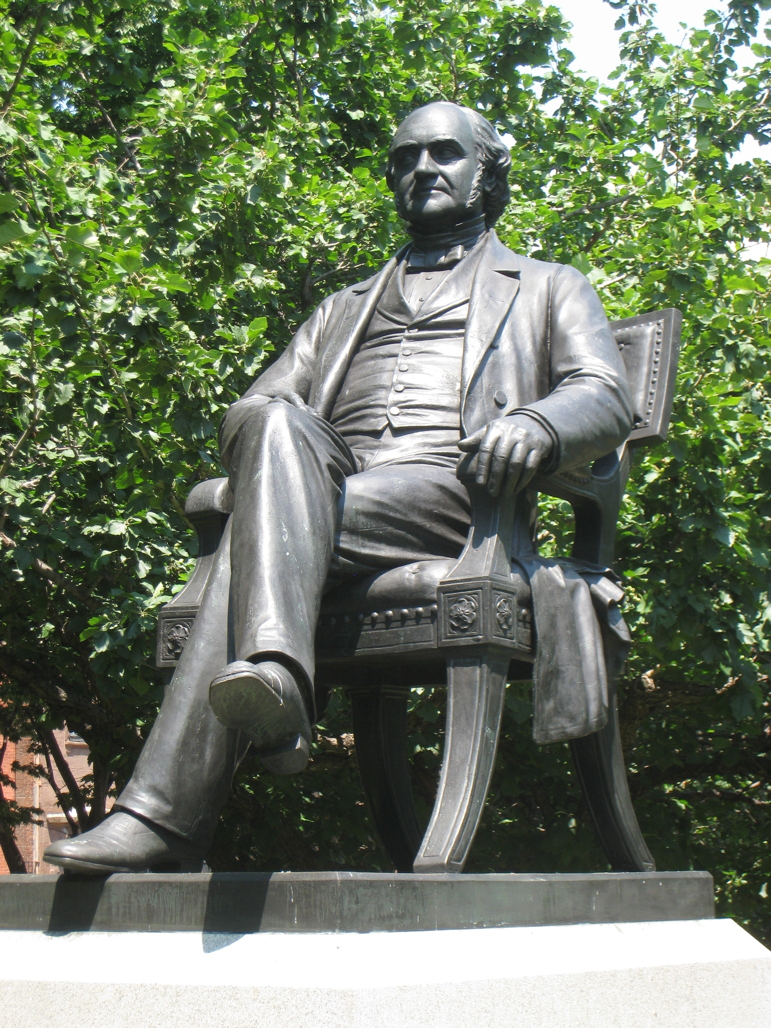 George Peabody statue, Mount Vernon Place, Baltimore, Maryland, USA. Sculptor William W. Story; dedicated 1890.